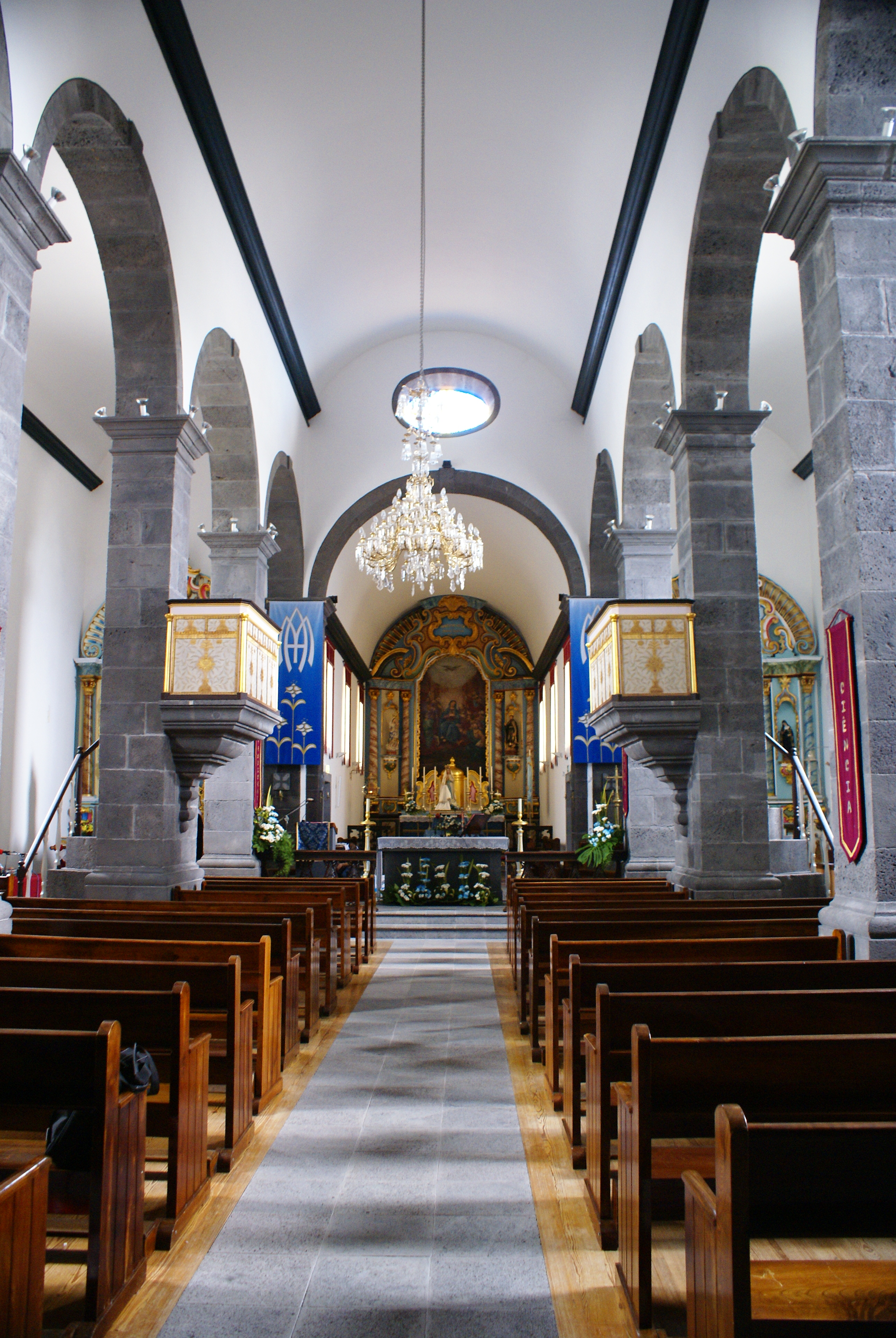 Central nave of the Church of the Divino Espírito Santo, Feteira, Horta, Faial (Azores), Portugal